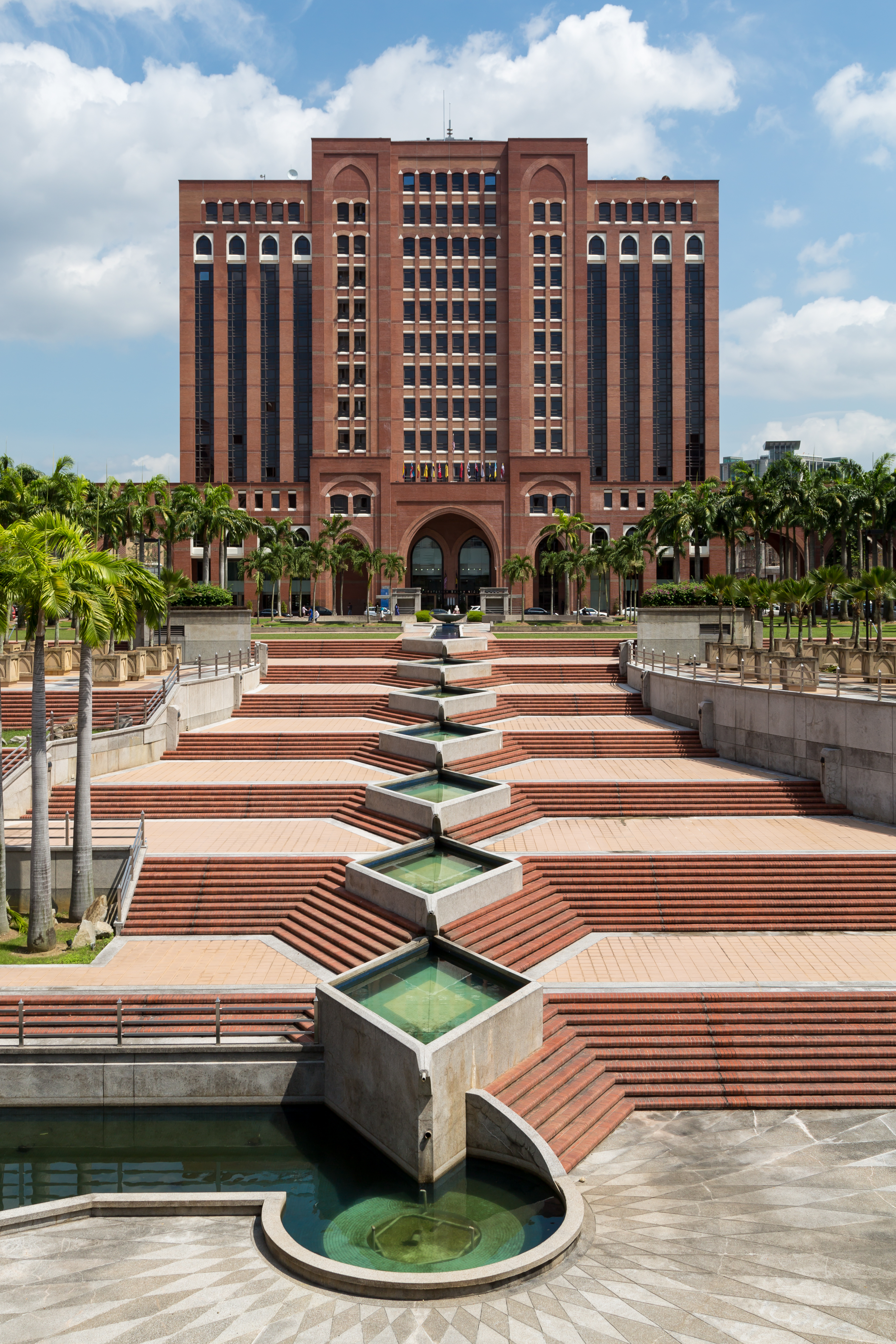 Putrajaya, Malaysia: Kementerian Dalam Negeri (Ministry of Home Affairs); main building in Block D1